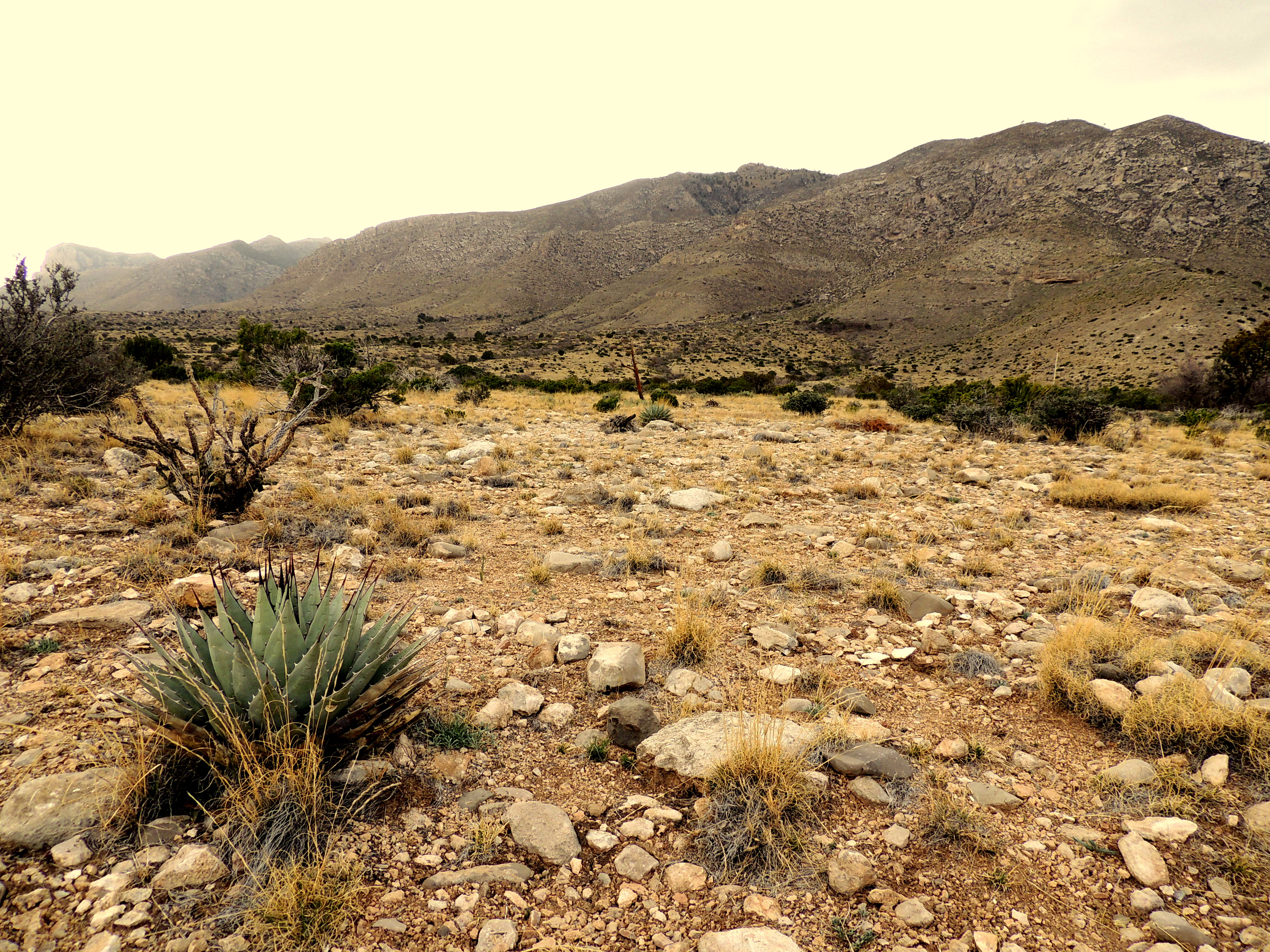 Taken on the hiking trail in the Guadalupe Mountains.